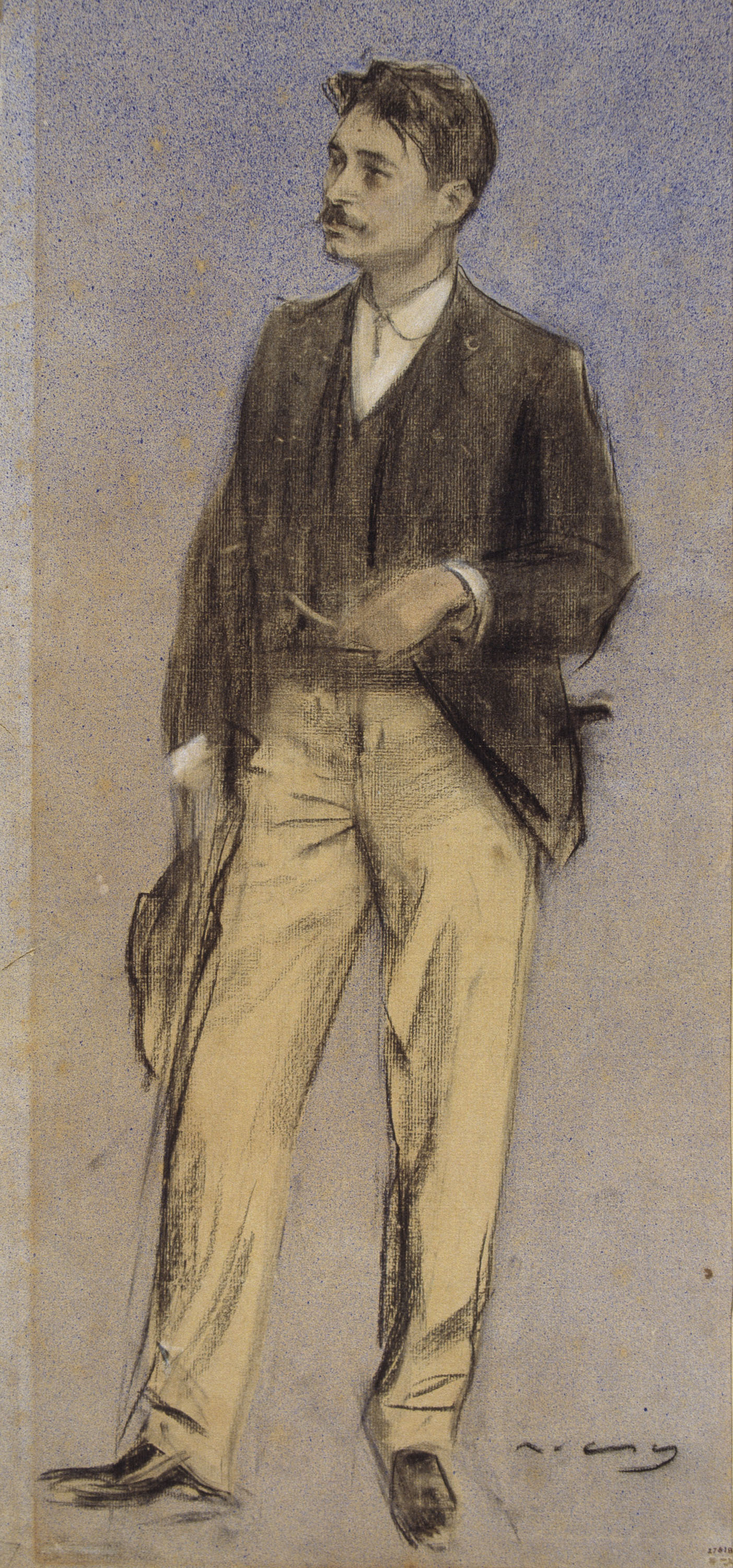 Portrait by Ramon Casas conserved at MNAC in Barcelona. Imagen 100